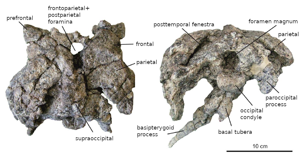 Skull roof and braincase of Bajadasaurus pronuspinax (MMCh-PV 75). Left: Top view, showing the skull roof. Right: Rear view, showing the braincase.